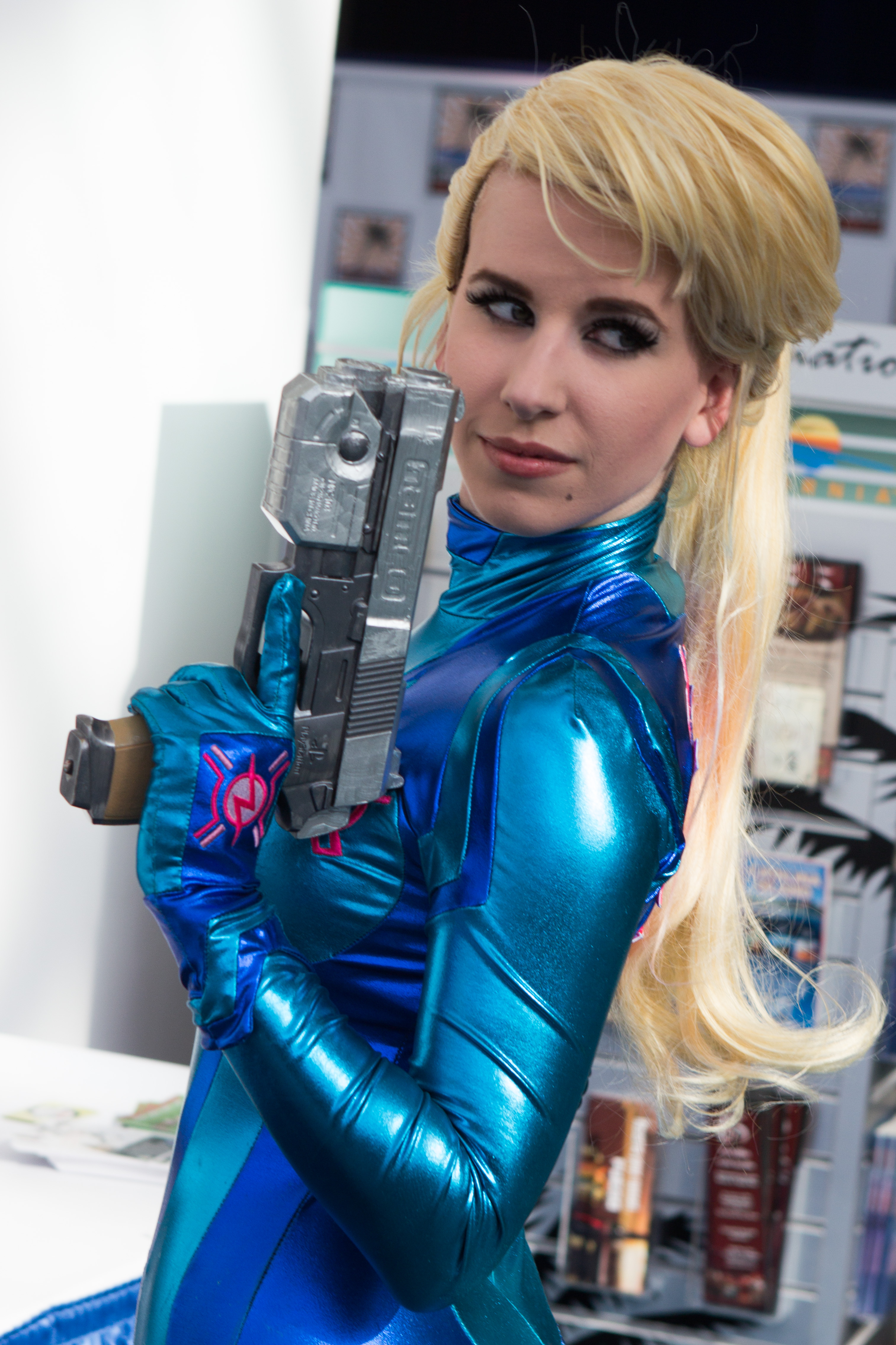 Samus Aran Cosplay at Long Beach Comic Con 2013.